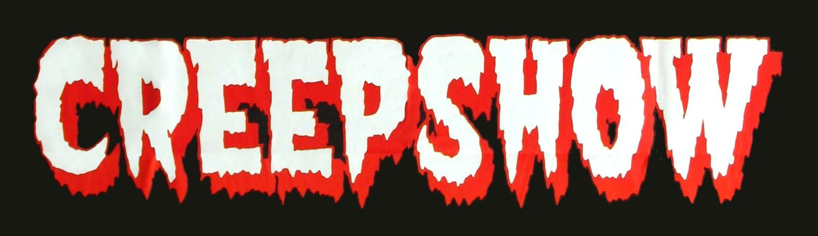 Official logo of the movie Creepshow